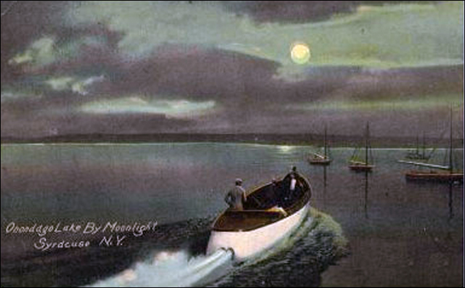 Onondaga Lake motor boat ride by moonlight about 1907